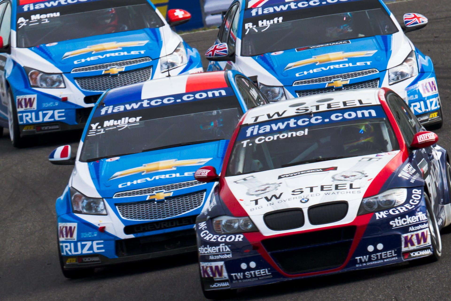 World Touring Car Championship 2011 Race of Japan - Race 2: Tom Coronel (ROAL Motorsport) manages to hold off Chevrolet trio (Yvan Muller, Robert Huff and Alain Menu).